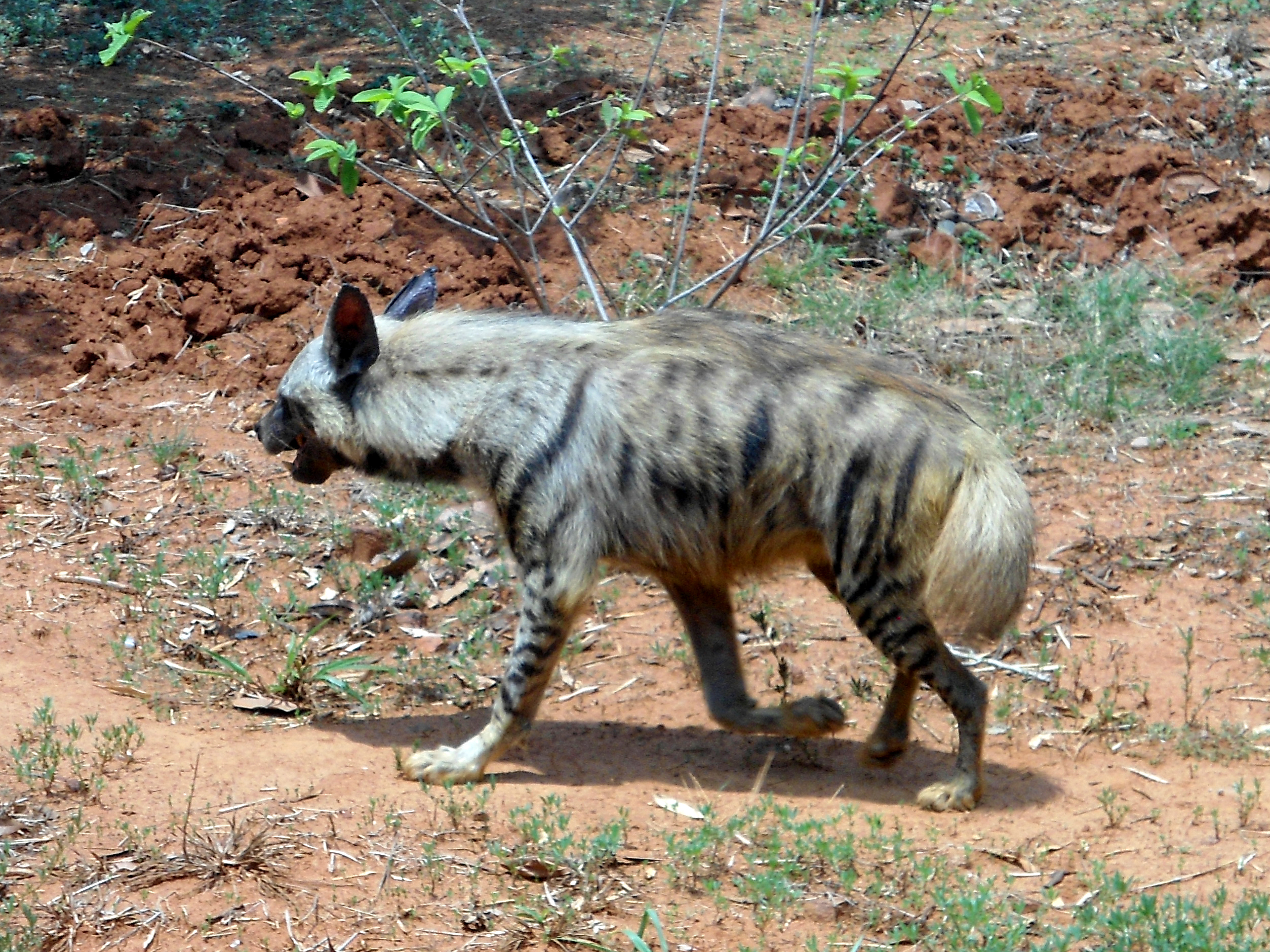 Striped hyena (Hyaena hyaena) at Indira Gandhi Zoological Park, Visakhapatnam